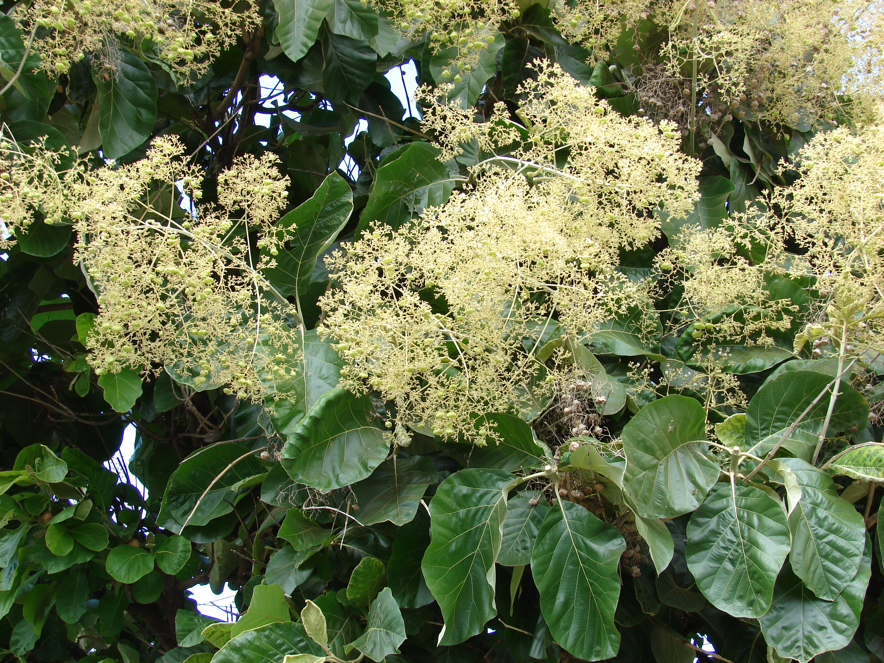 Tectona grandis (leaves flowers and fruit). Location: Maui, Kihei